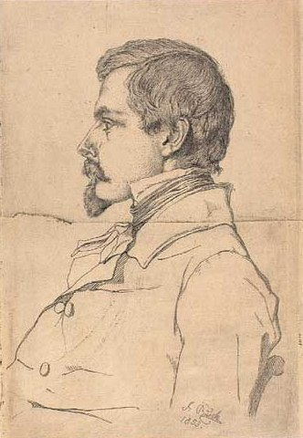 Jacob Kornerup (1825-1913), Danish archaeologist and painter